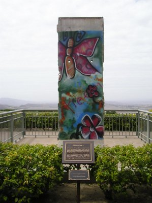 A piece of the Berlin Wall housed at the Reagan Library